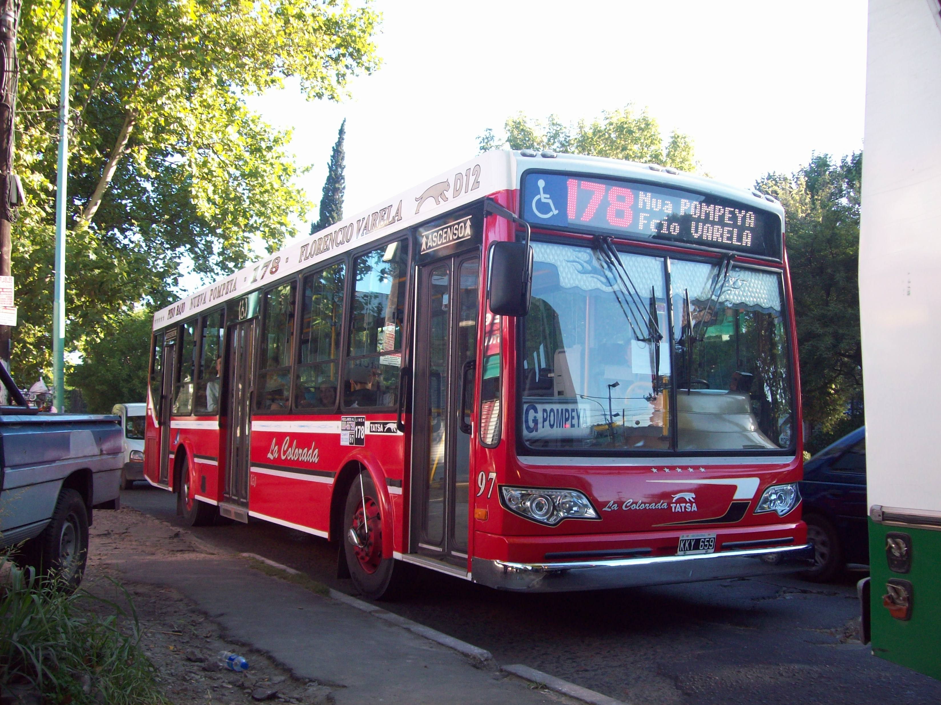 TATSA Puma D12 Mk3 bus (reg. KKY 659, #97) in Buenos Aires Province, Argentina. Colectivo, line 178, Compañía Microomnibus La Colorada S.A.C.I. operator.